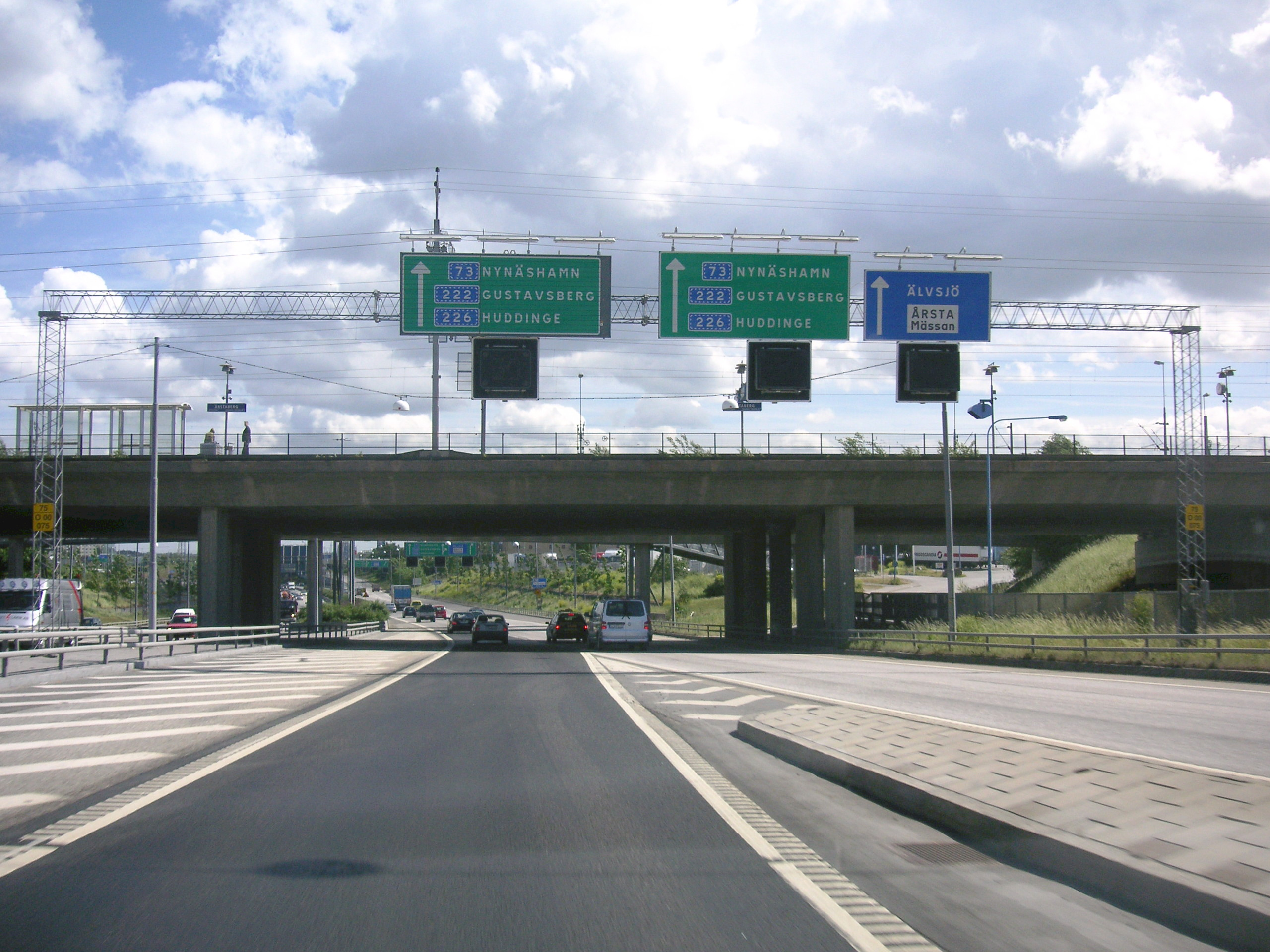 Årstalänken in Stockholm